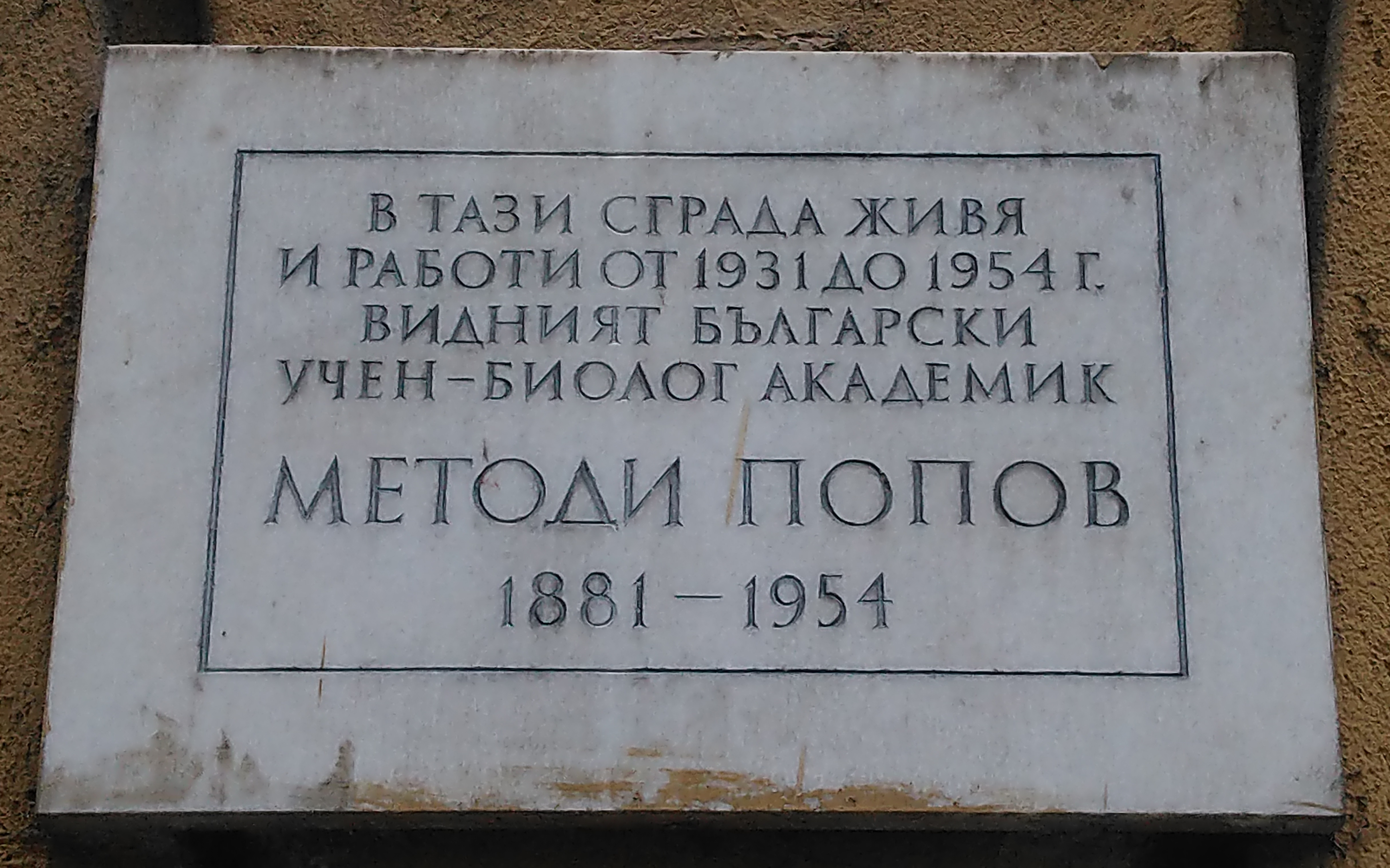 Memorial plaque of the Bulgarian Academician Metodi Popov